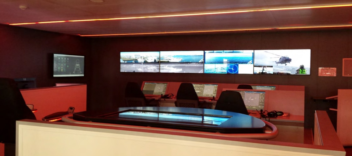 Thales tacticos